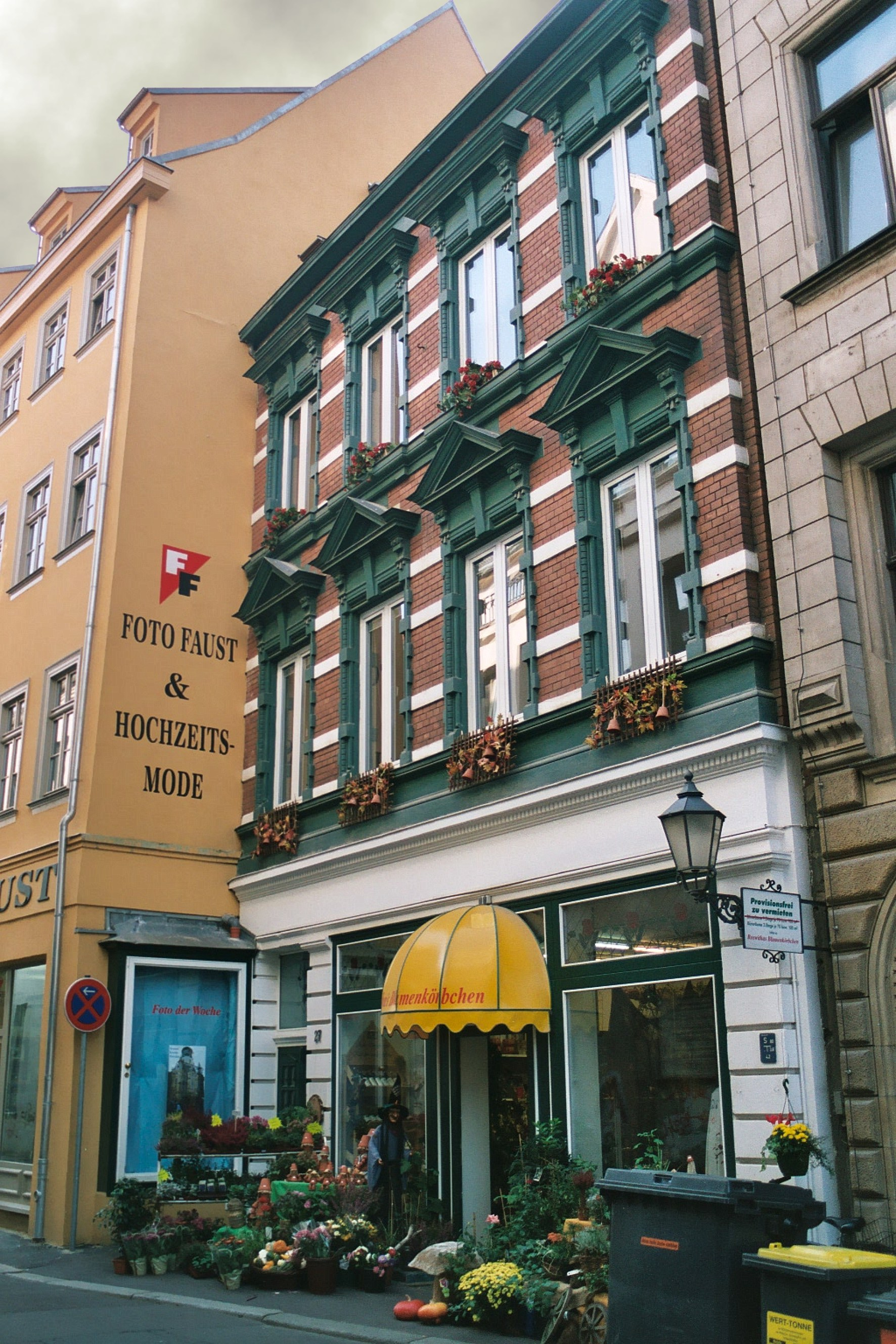 Halle (Saale), the house 27 Große Märkerstraße